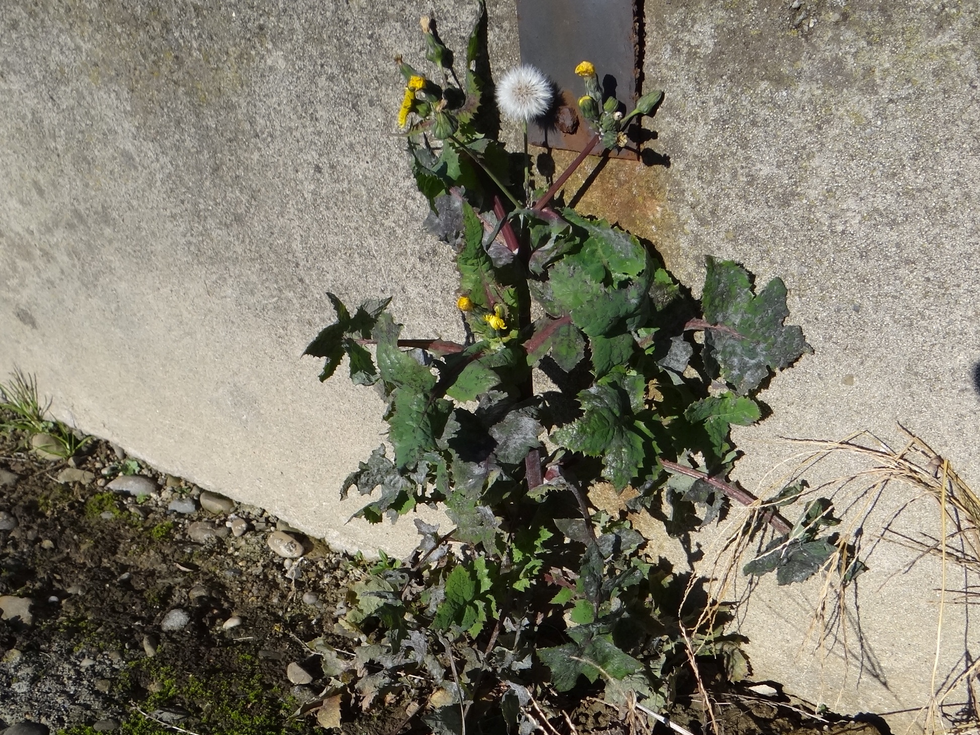 Golovinomyces cichoracearum on Sonchus oleraceum Location: Poland, Proszówki